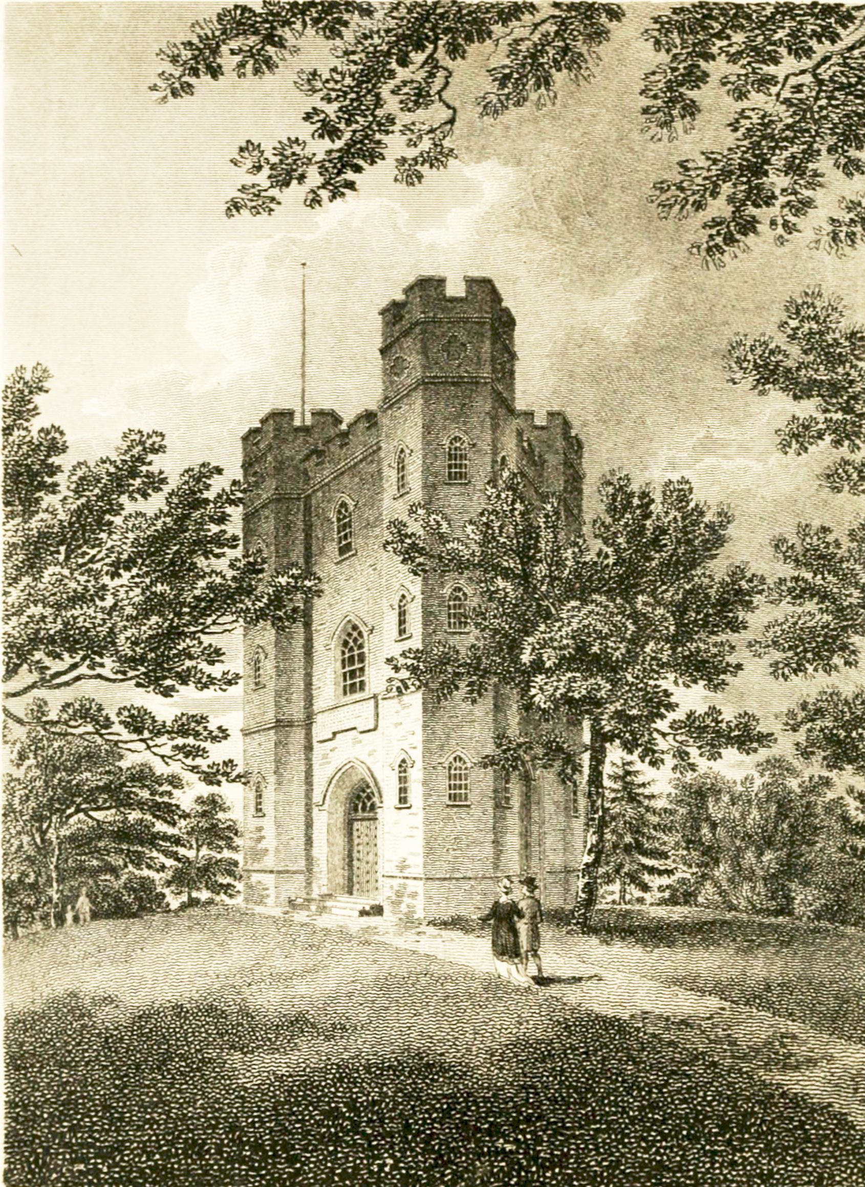 The Triangular Tower, Shooters Hill. Views in Suffolk, Norfolk, and Northamptonshire: illustrative of the works of Robert Bloomfield: accompanied with descriptions: to which is annexed a memoir of the poet's life